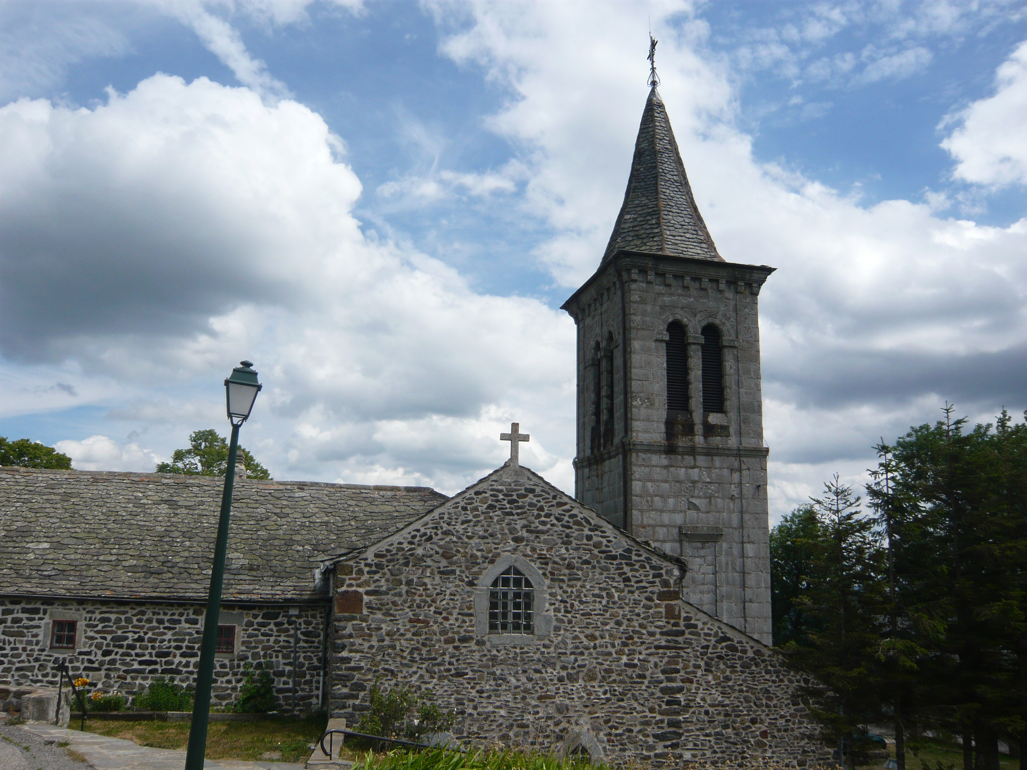 The church of Saint-Clément (Ardèche, France). July 2010.